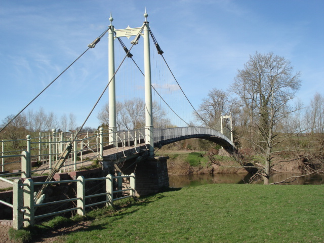 Suspension Footbridge over the River Wye This bridge was designed and built by Louis Harper in 1895 at the request of local folk who wanted their vicar to be able to move easily between his two churches at Sellack and Kings Caple. The Harper Bridges web site has excellent information on the many bridges they constructed around the country and the fence post patent which led to the success of the company. There is still evidence of at least one more bridge to be found over the Derwent - a job for Geograph-ers?